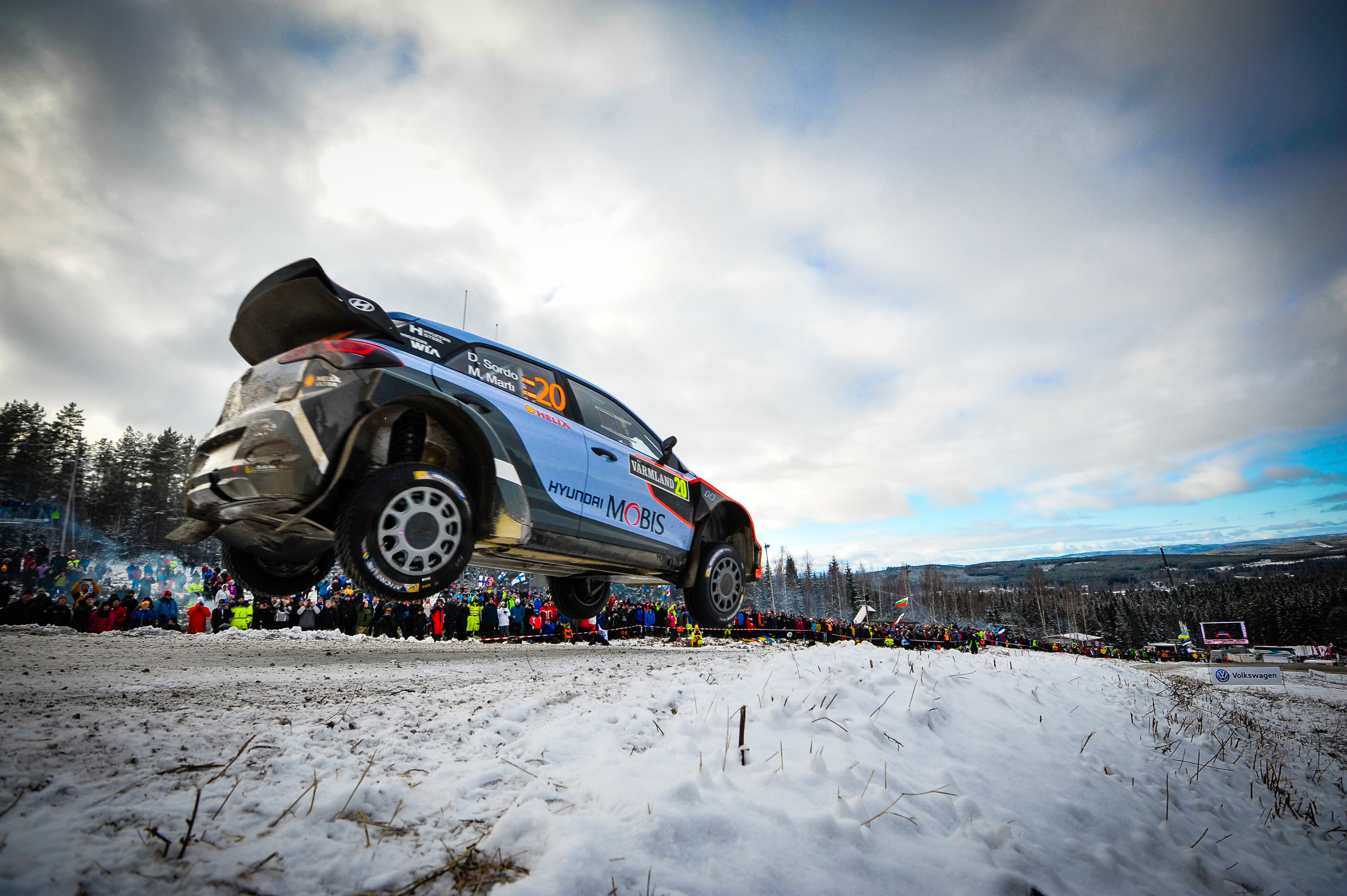 Dani Sordo and co-driver Marc Martí in their Hyundai i20 WRC at the 2016 Rally Sweden.